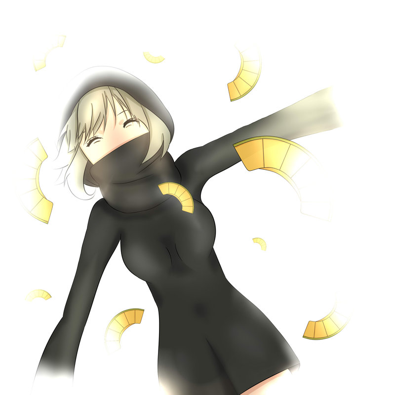 A picture of the character among melon slices.